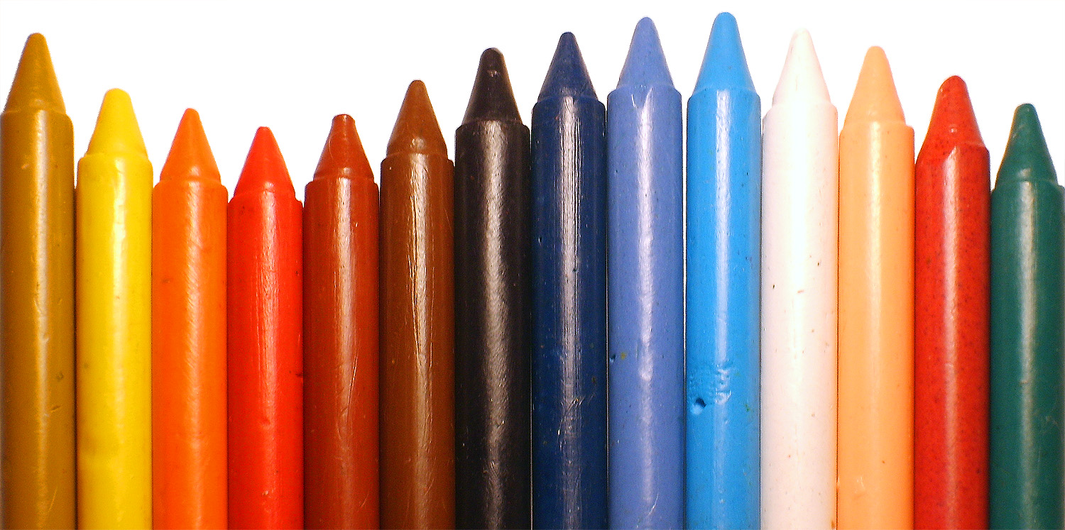 Wax crayons.